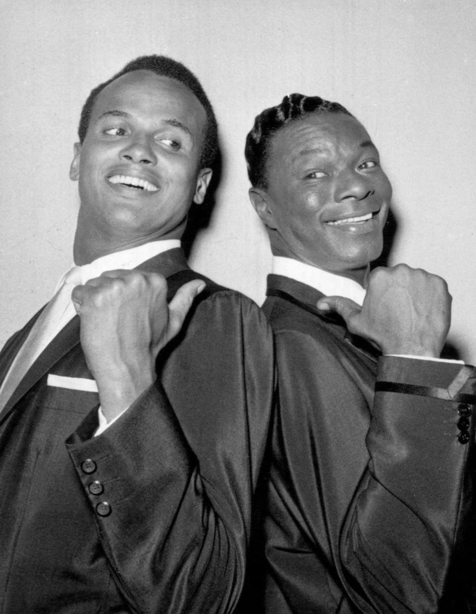 Photo of Harry Belafonte and Nat King Cole in 1957.